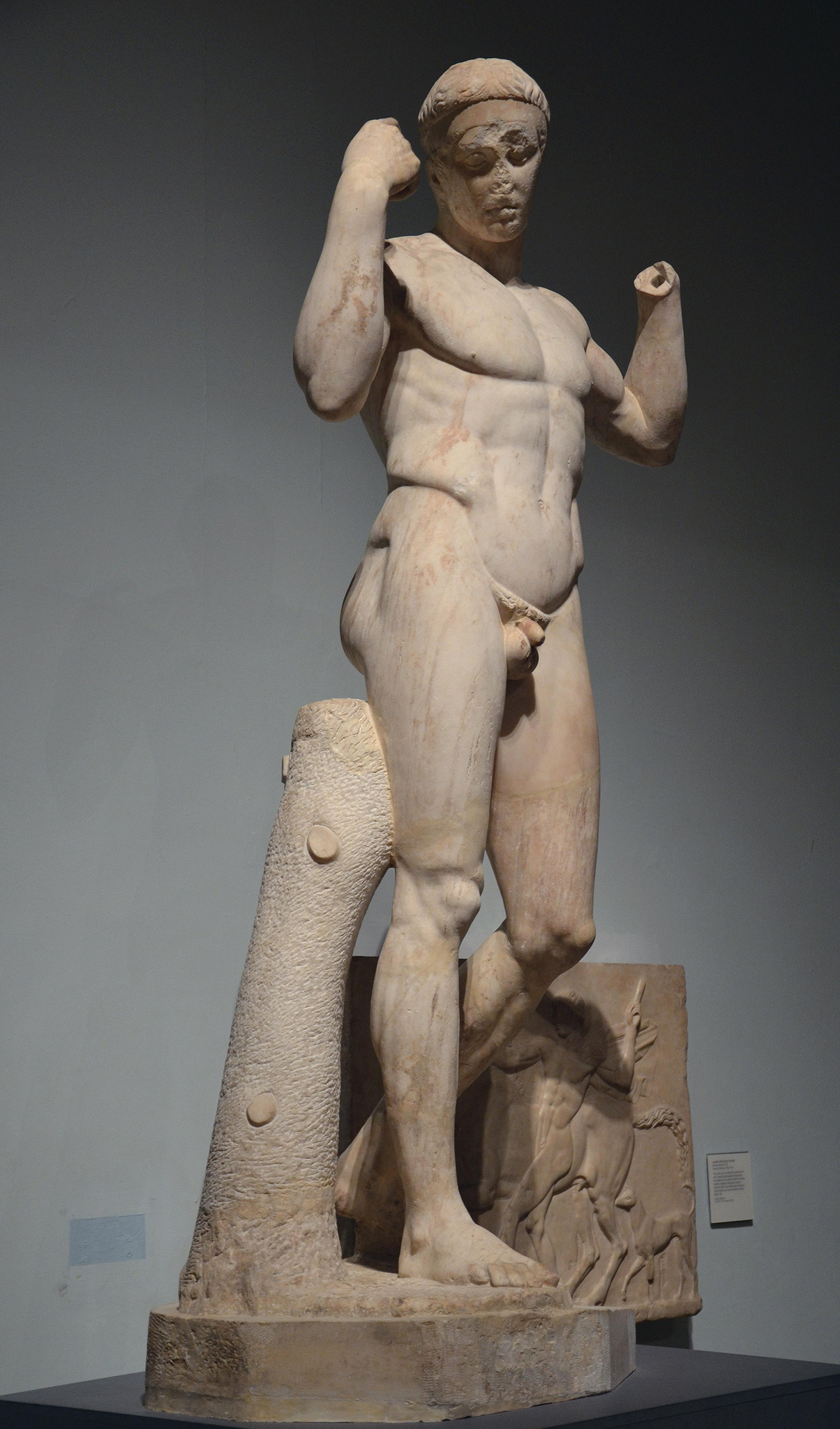 Roman version of a Greek bronze original of about 440–430 BC, found at Vaison, France. Known as the Diadoumenos (ribbon wearer) this statue shows a triumphant athlete tying a ribbon round his head immediately after a victory. At ancient Greek sports festivals it was the custom to give ribbons to winning athletes. Later, at the awards’ ceremony, the athlete received a wreath of leaves such as olive, laurel or wild celery leaves, depending on the festival. The identity of the athlete and the event he won are not known. He may represent athletic victories in general. What is a victor statue? Victor statues were intended to immortalise successful athletes. Sculptors favoured bronze for athletic statues, perhaps because it better represented tanned, oiled skin, but many were carved from marble. They were set on bases inscribed with a dedication to a god, the athlete’s name, father’s name, home town and contest. This Roman marble statue copied a bronze original by the Greek sculptor Polykleitos. It is recorded that the original fetched the price of a hundred talents, an enormous sum in the ancient world.